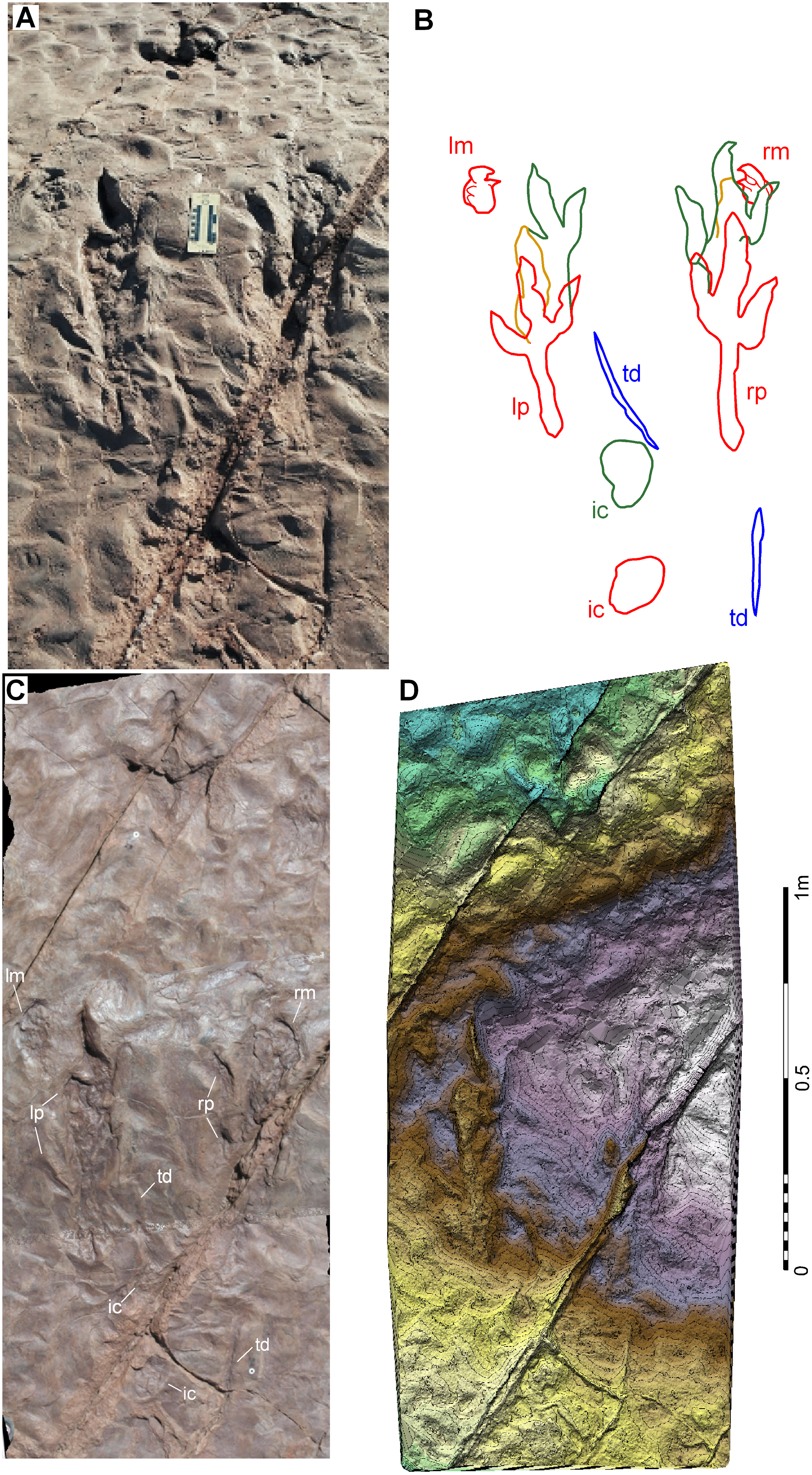 Eubrontes trackway with resting trace (SGDS.18.T1) in the Whitmore Point Member of the Moenave Formation, St. George, Utah. A, Overhead, slightly oblique angle photograph of SGDS.18.T1 resting trace. Note normal Eubrontes track cranial to resting traces (top center) made by track maker during first step upon getting up. Scale bar equals 10 cm. B, Schematic of SGDS.18.T1 to scale with A: first resting traces (manus, pes, and ischial callosity) in red, second (shuffling, pes only) traces in gold, final resting traces (pes and ischial callosity) in green, and tail drag marks made as track maker moved off in blue. Note long metatarsal (“heel”) impressions on pes prints. C, Direct overhead photograph and D, computerized photogrammetry with 5 mm contour lines of Eubrontes trace SGDS.18.T1. Color banding reflects topography (blue-green = lowest, purple-white = highest); a portion of the berm on which the track maker crouched is discernible. Abbreviations: ic = ischial callosity, lm = left manus, lp = left pes, rm = right manus, rp = right pes, td = tail drag marks.